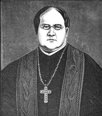 Portrait of Bishop Michael Portier